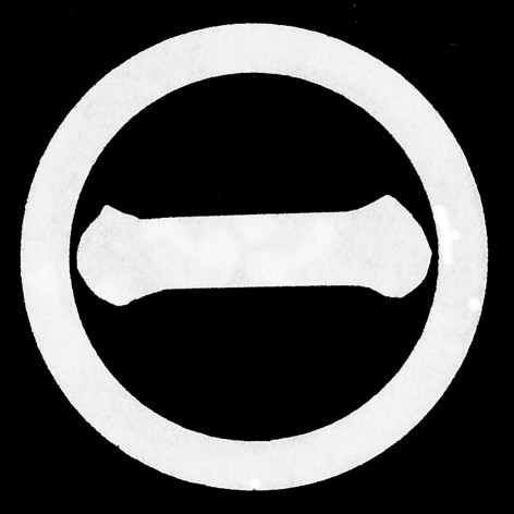 Crest of Nasu family